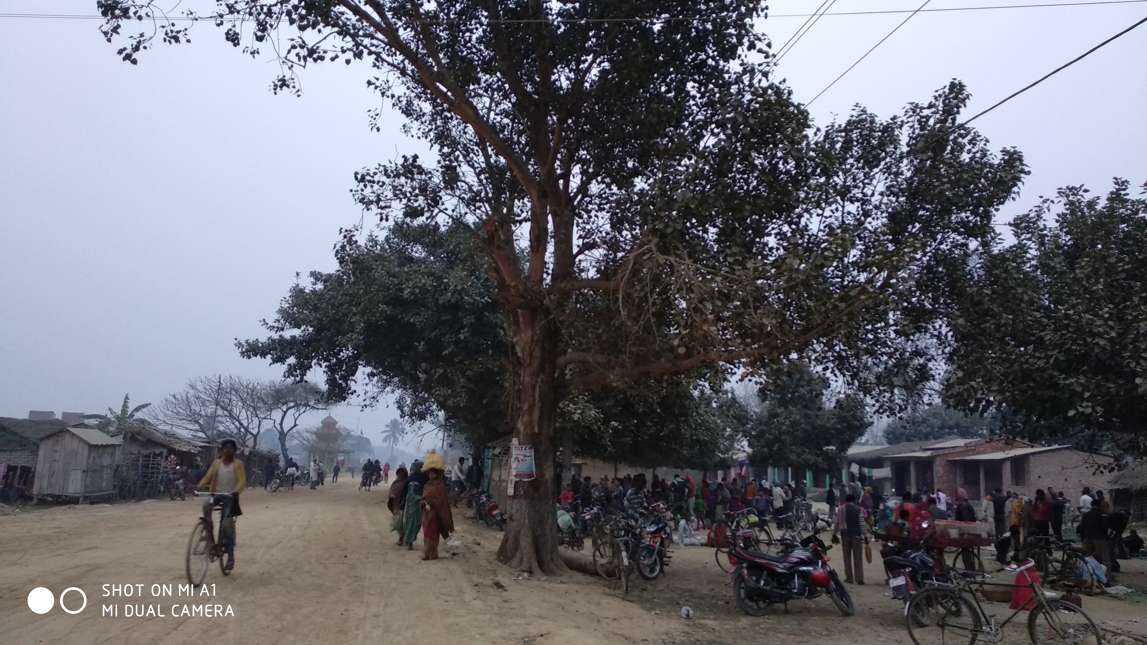 It is Bazar of Tenuwpatti where people gathered to sell and buy the vegetables weekly on Saturday and Wednesday.